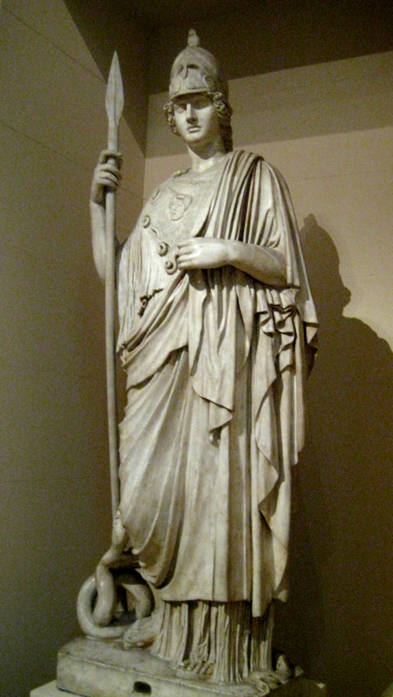 Athena_Giustiniani_(Pushkin_museum,_casting)